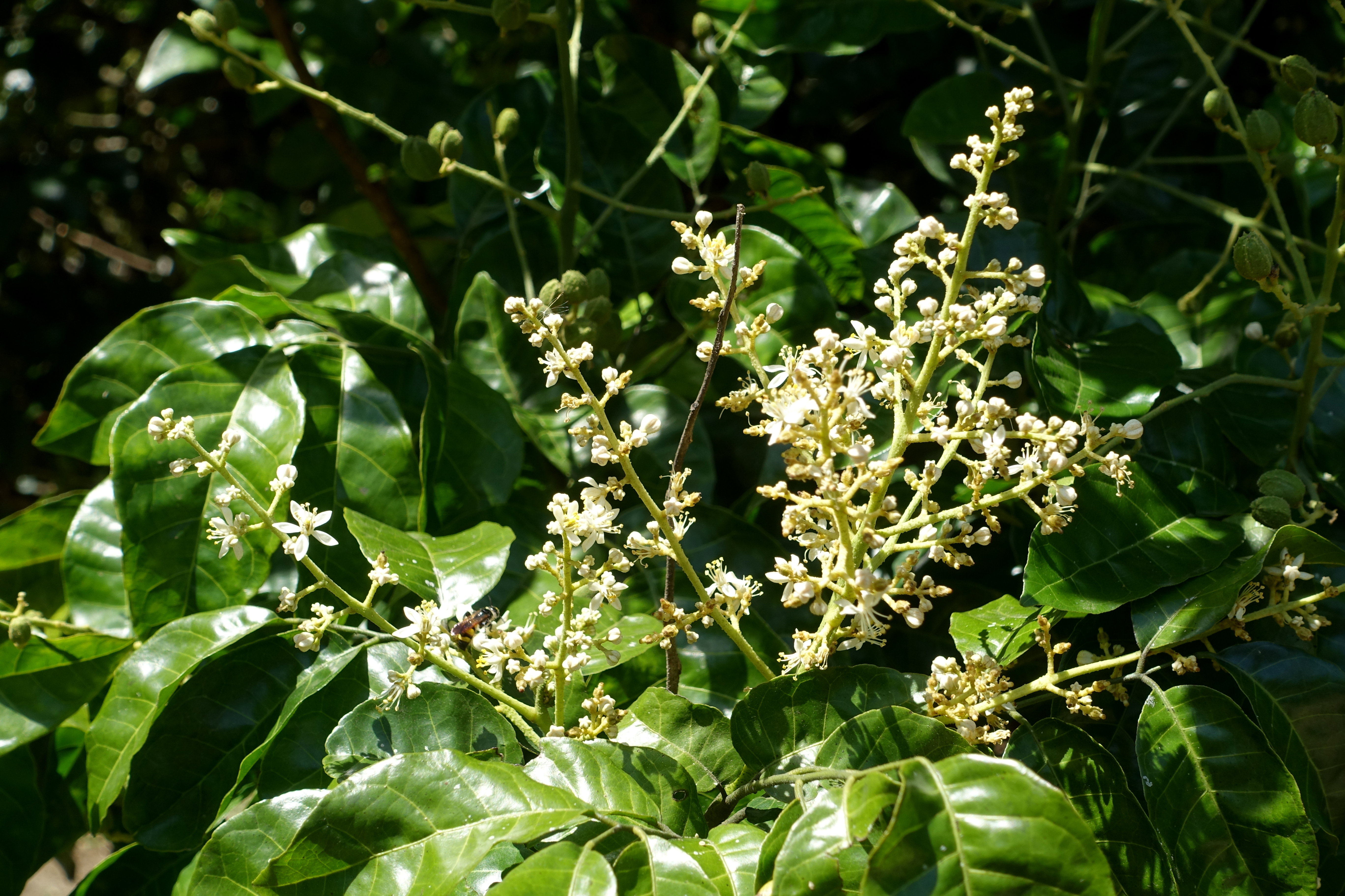 Plant specimen in the Fruit and Spice Park - Homestead, Florida, USA.